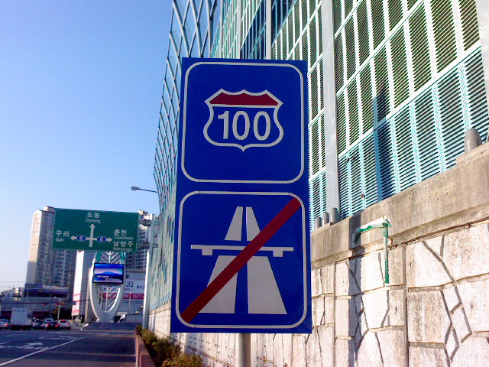 Korea Sign - Expressway 100 End